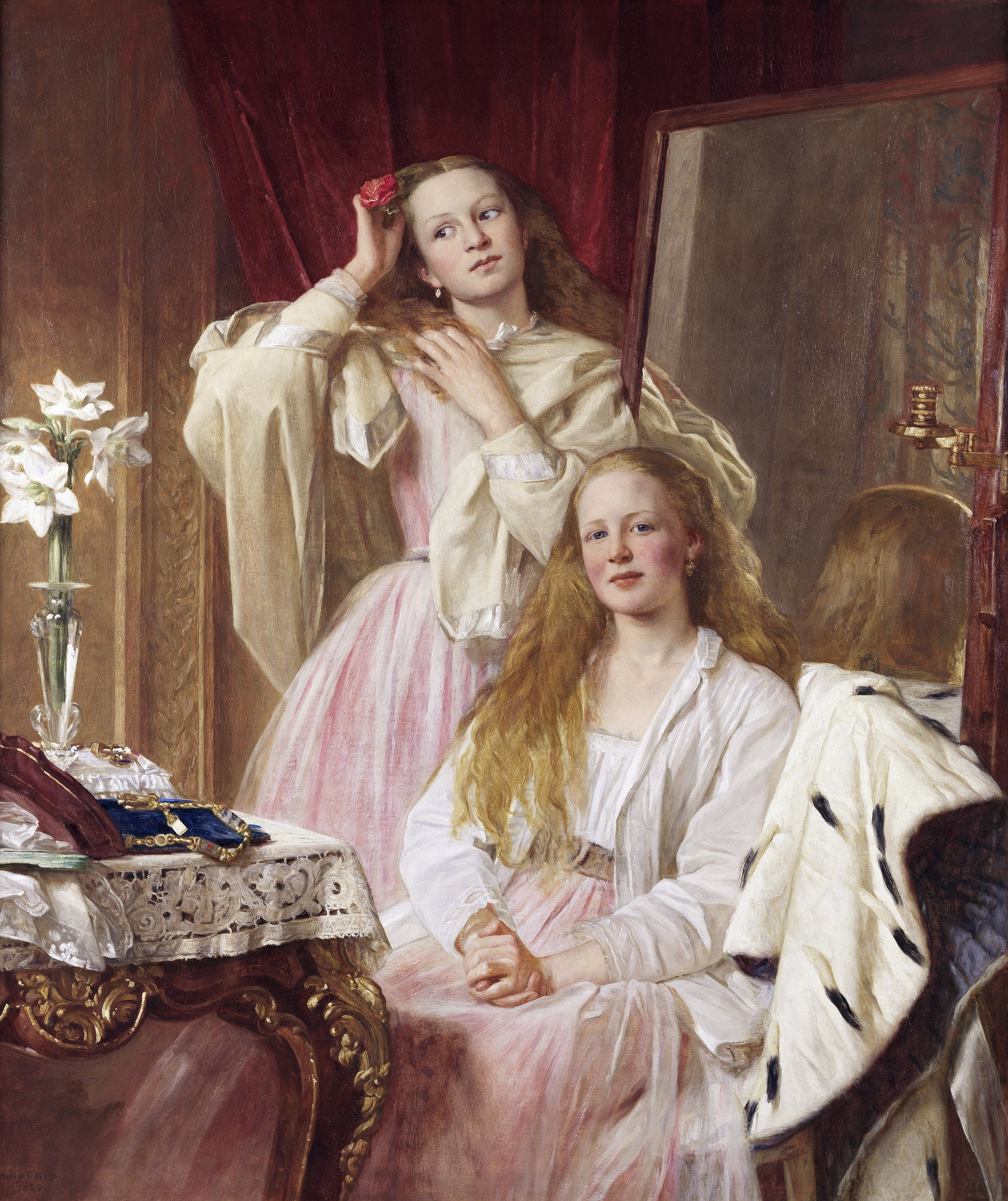 Emma and Federica Bankes, daughters of Edward Bankes, who was the brother of William John Bankes (1786 - 1855)